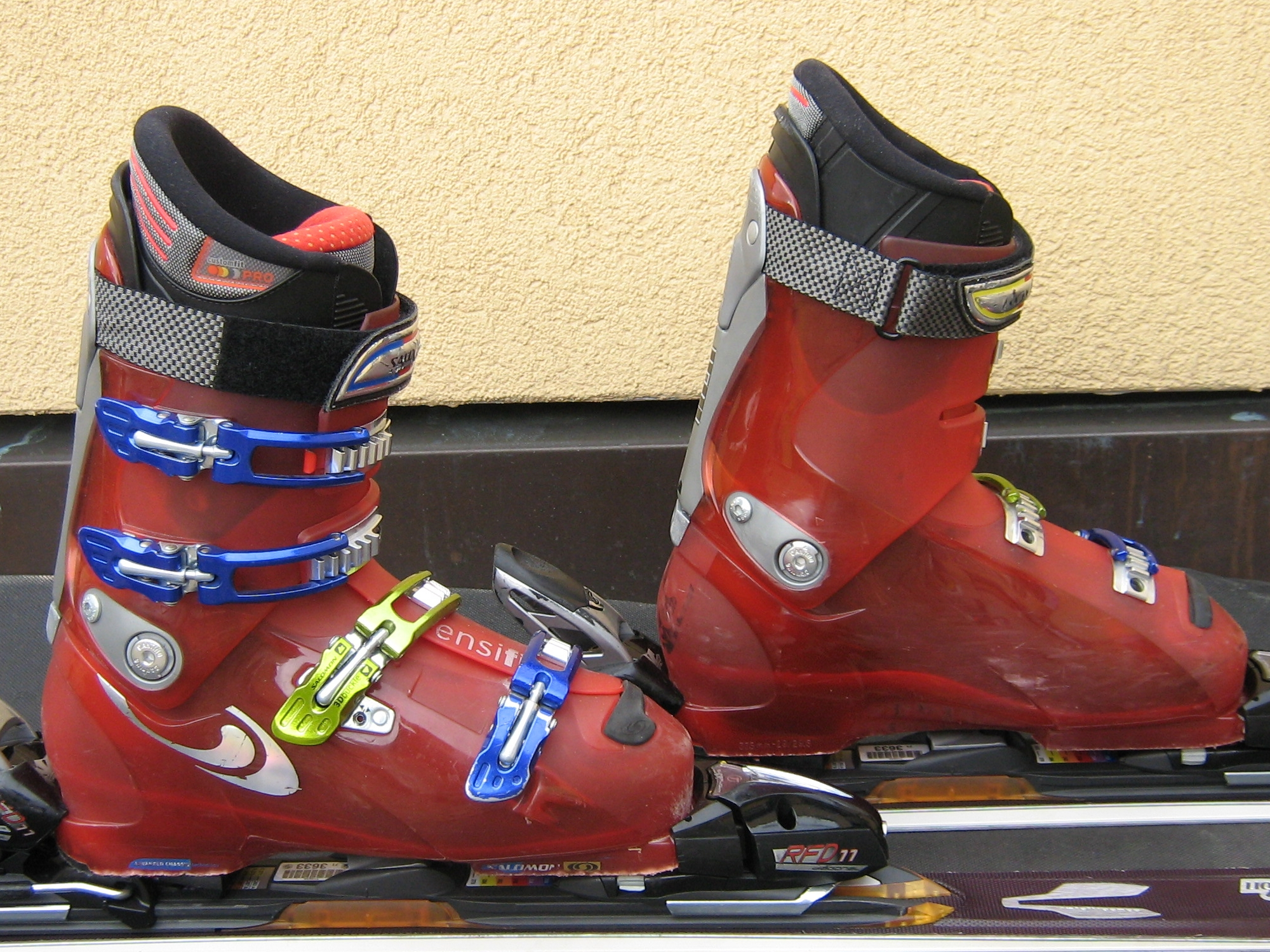 Hardboots for alpine skiing, front-entry with four buckles, fixed in ski bindings